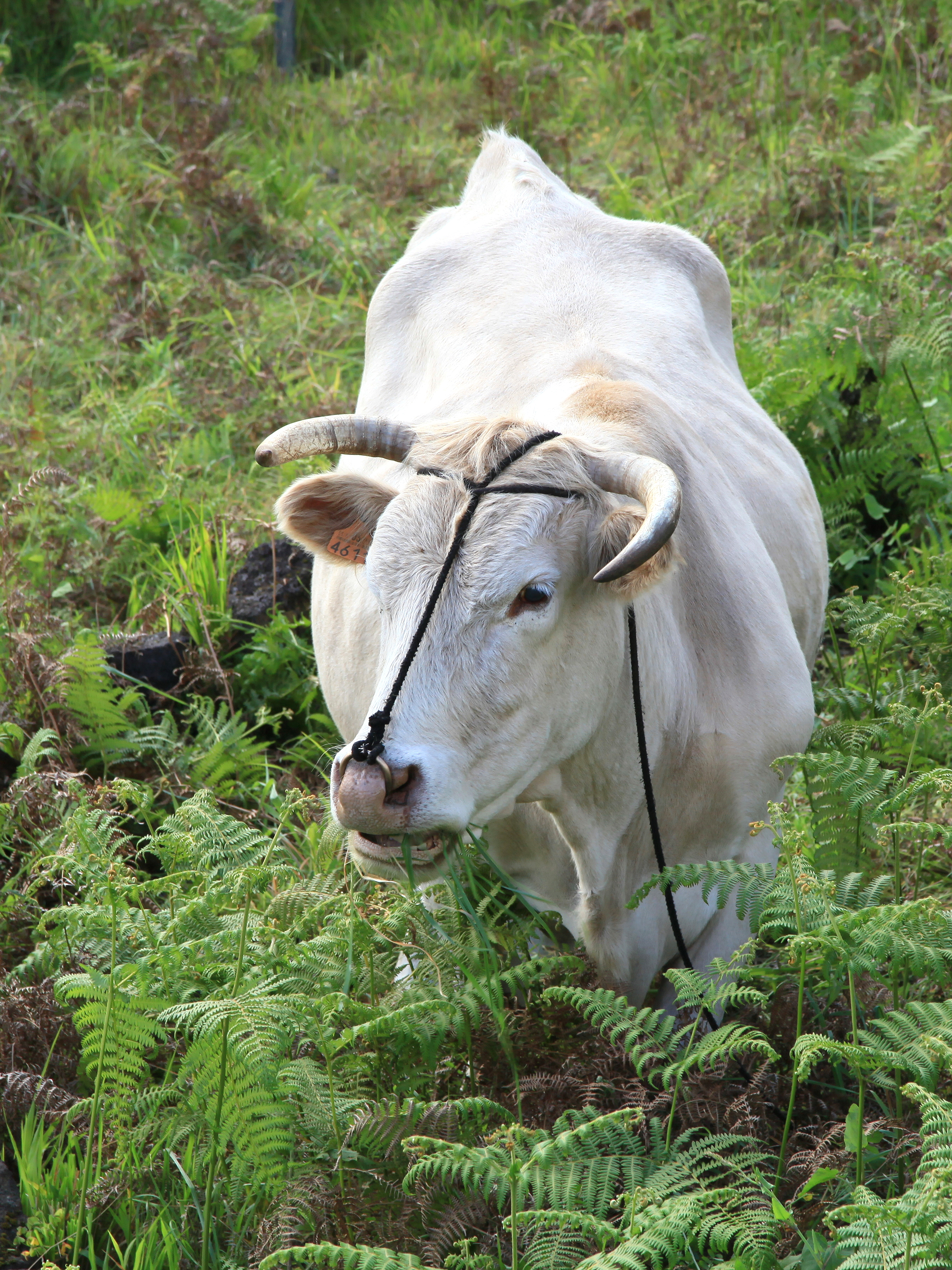 Palmera cattle at Carretera San Isidro in Breña Alta, La Palma, Canary Island, Spain; cropped from the original